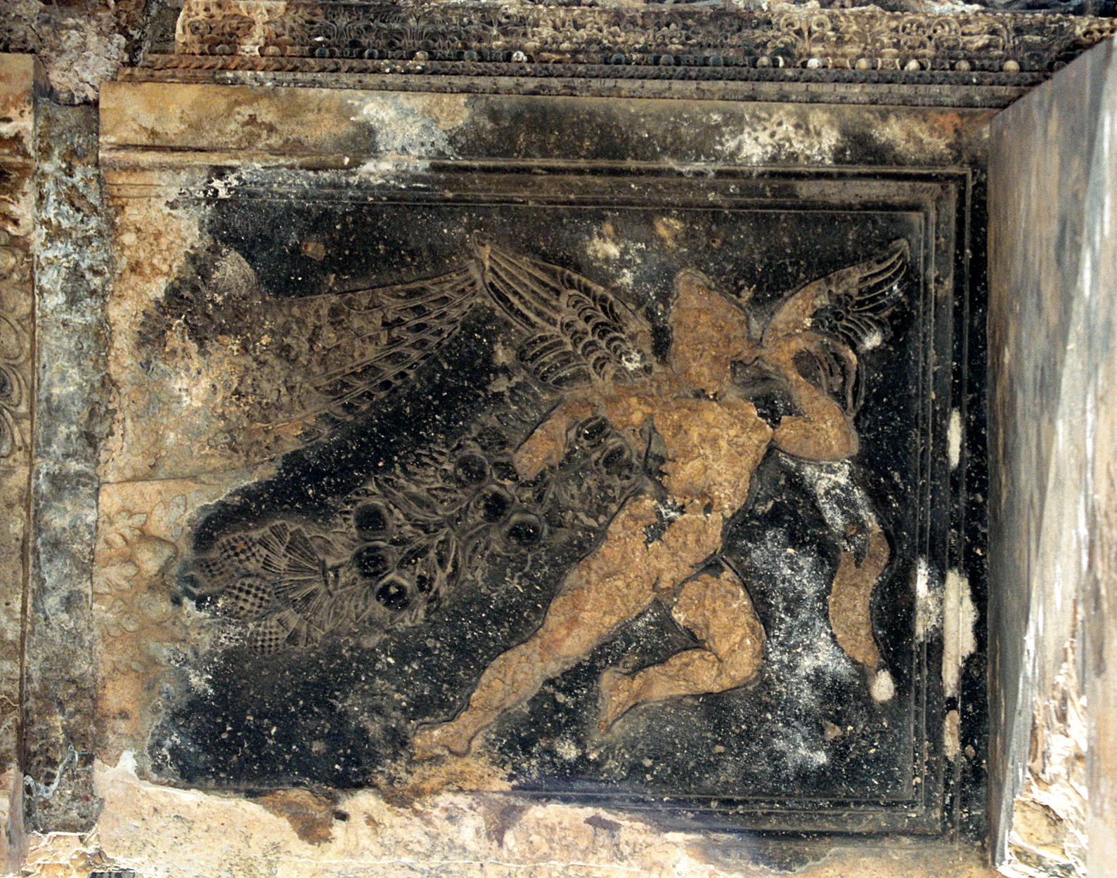 Baalbek, Temple of Bacchus - ornamented ceiling of entrance